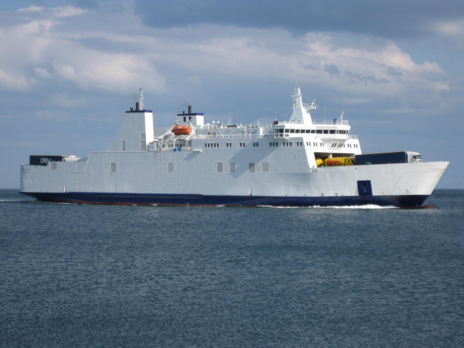 Kattegatruten ferry